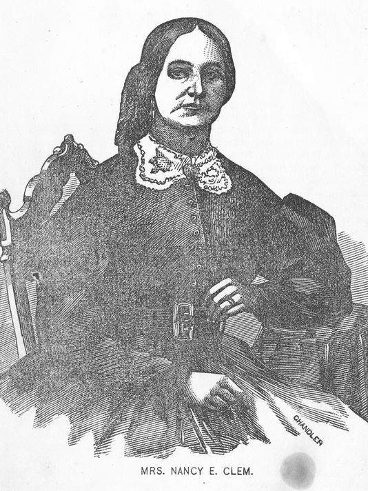 Portrait of Nancy E. Clem. First published in "The Cold Spring tragedy : trial and conviction of Mrs. Nancy E. Clem for the murder of Jacob Young and wife", Indianapolis, Ind. : A.C. Roach, ©1869.